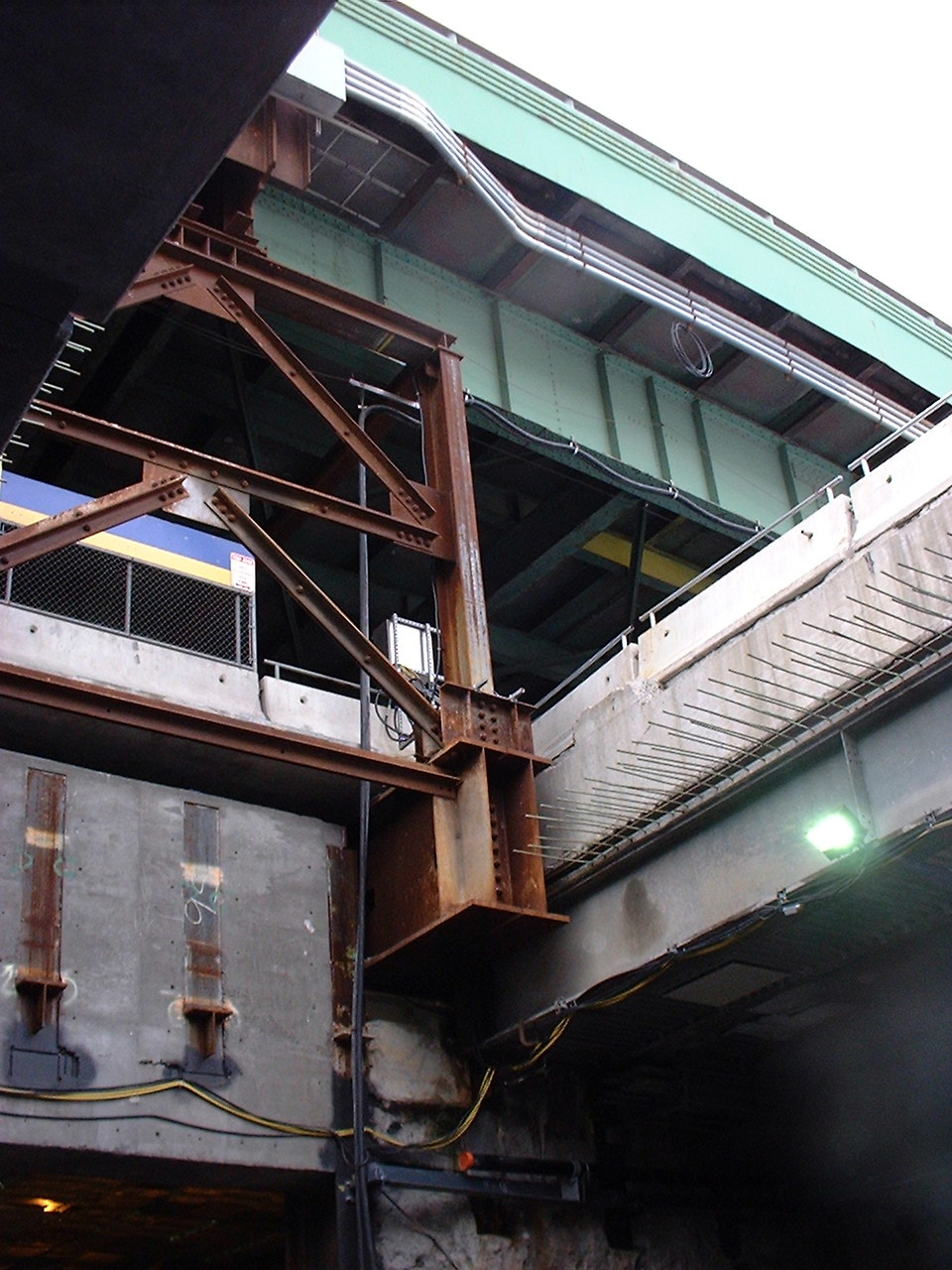 Boston's elevated Central Artery supported by new Big Dig (Boston) construction.